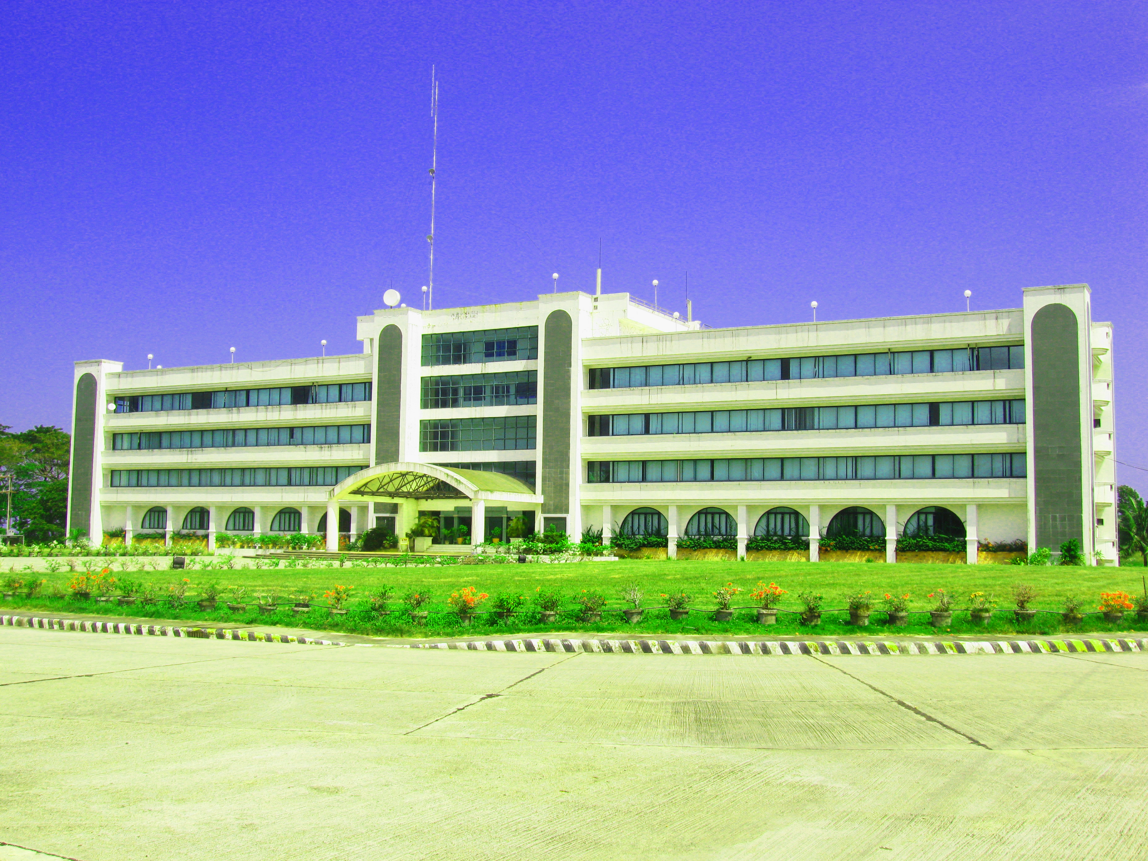 Zamboanga City Special Economic Zone Authority -Admin Office